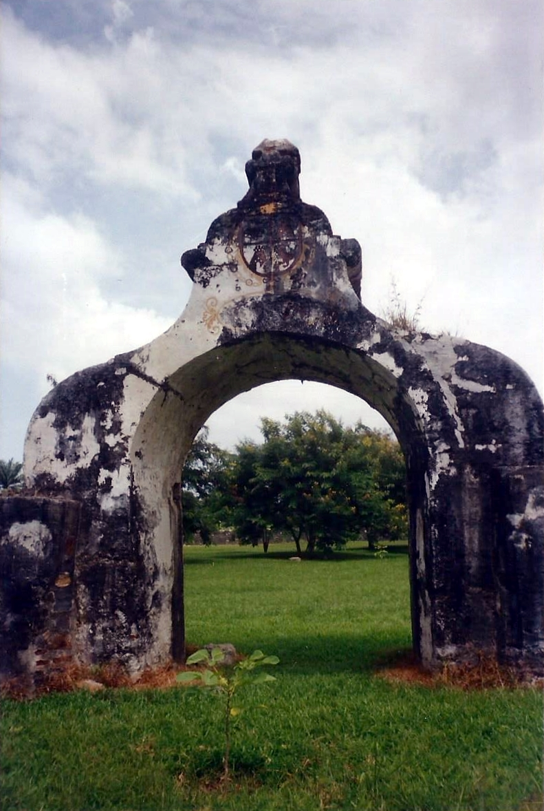 Entrance to El Real at San Fernando de Omoa, 18th century fort at Omoa, Honduras.